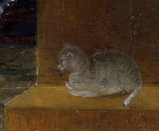 Cat in Antonello da Messina's painting St. Jerome in His Study